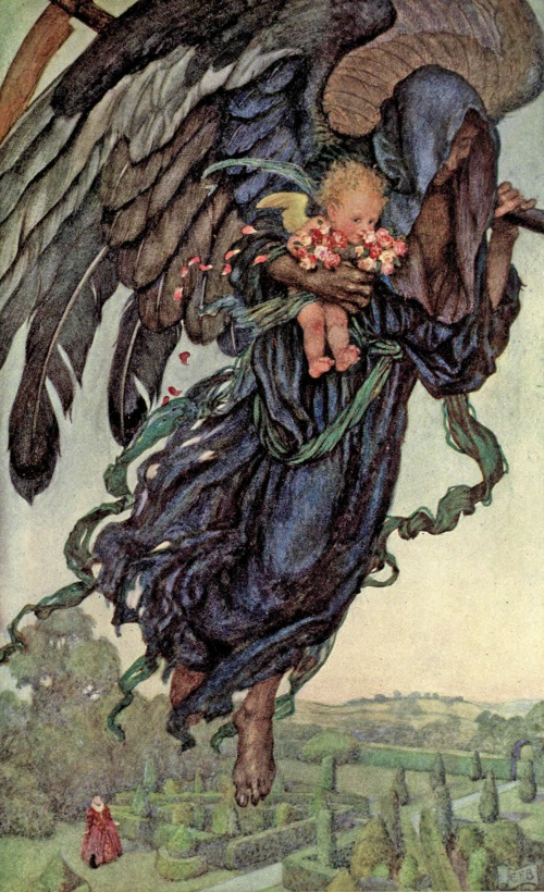 The Book of old English songs and ballads